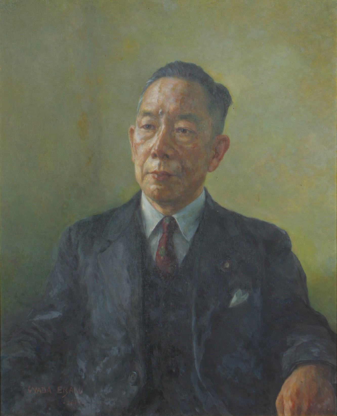 Takase Sotaro, by Wada Eisaku, Hitotsubashi University